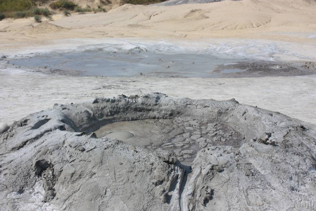 Mud volcano, Romania